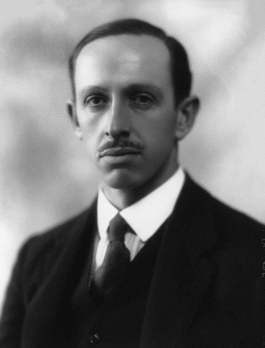 Robert Gascoyne-Cecil, 5th Marquess of Salisbury